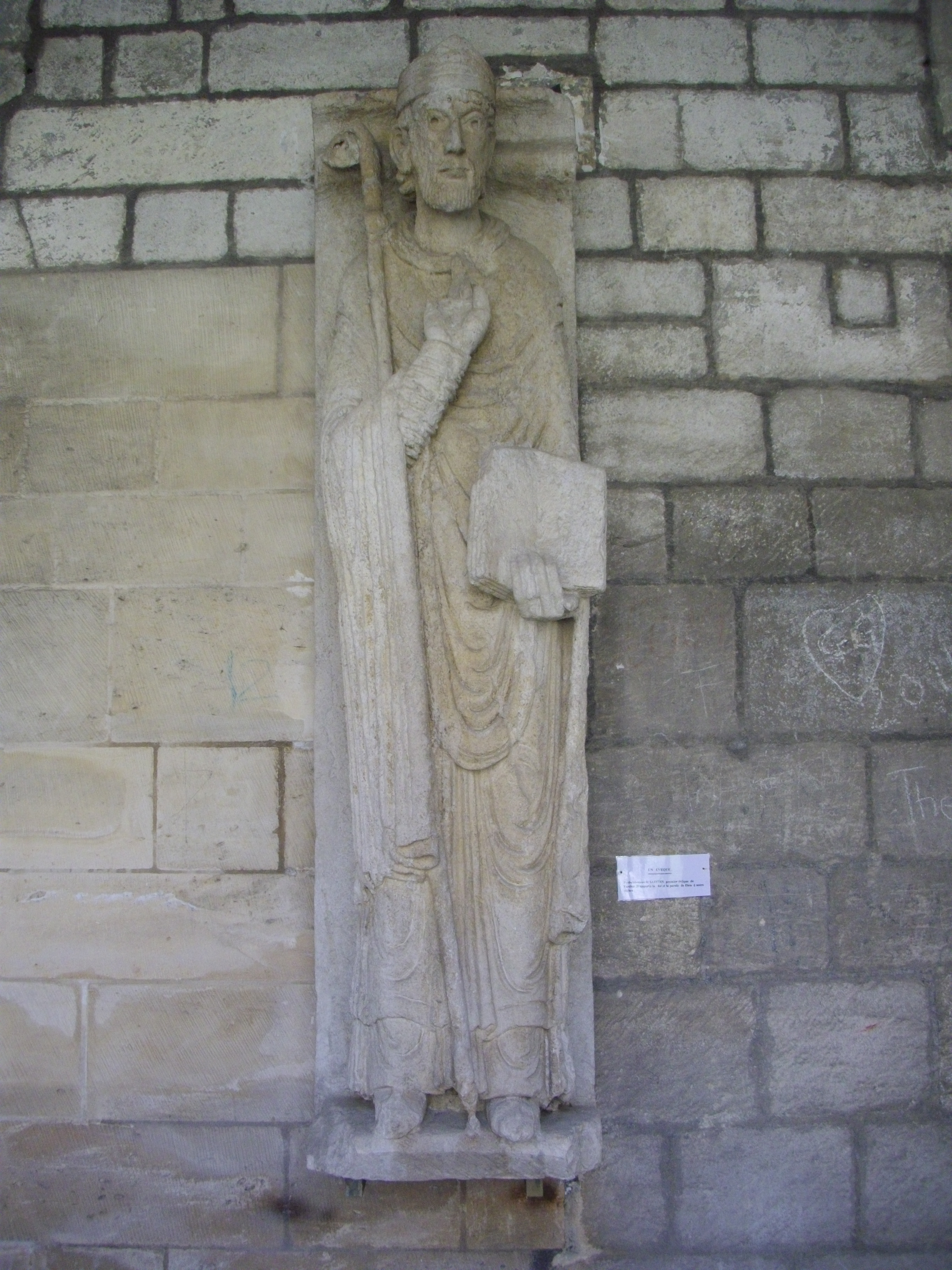 Cloister of Our Lady cathedral of Verdun (Meuse, France). Statue of saint Santin .